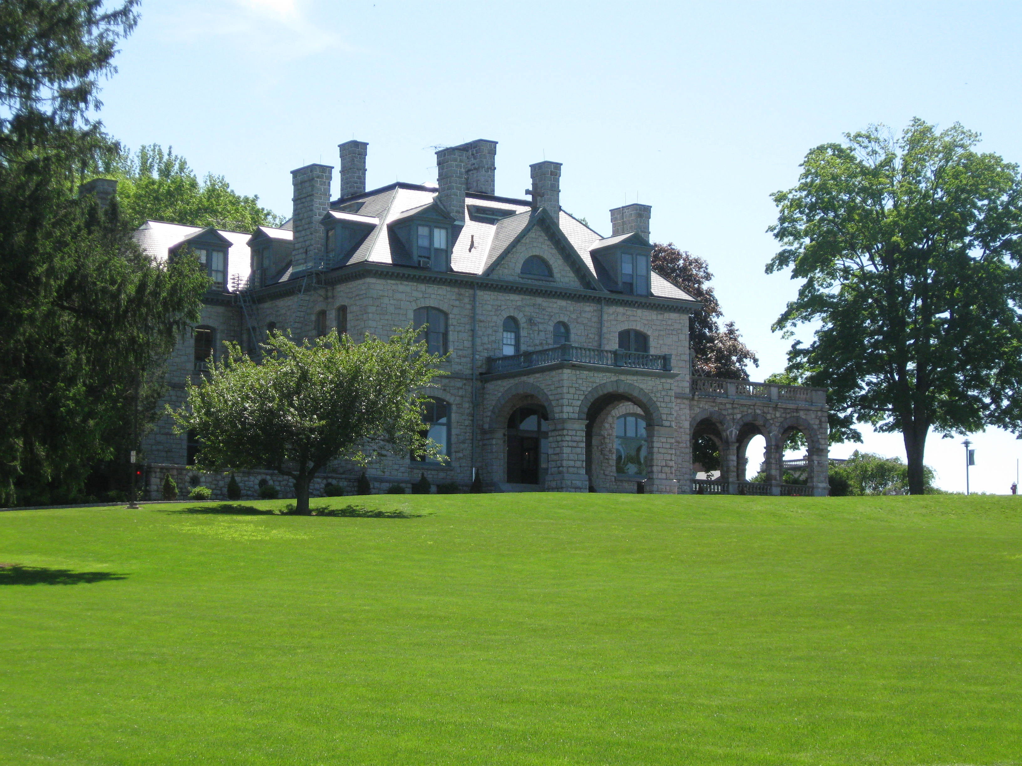 Picture of Delbarton's Kountze Mansion, also known as "Old Main." Contributing building #90-Q of the Washington Valley Historic District in Mendham Township, New Jersey.